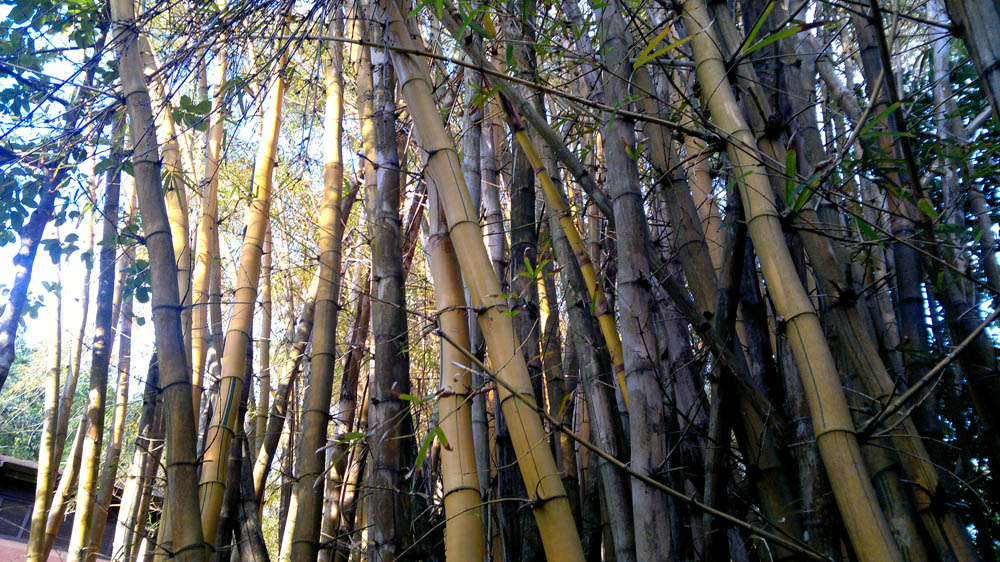 Bamboo forest in South Africa